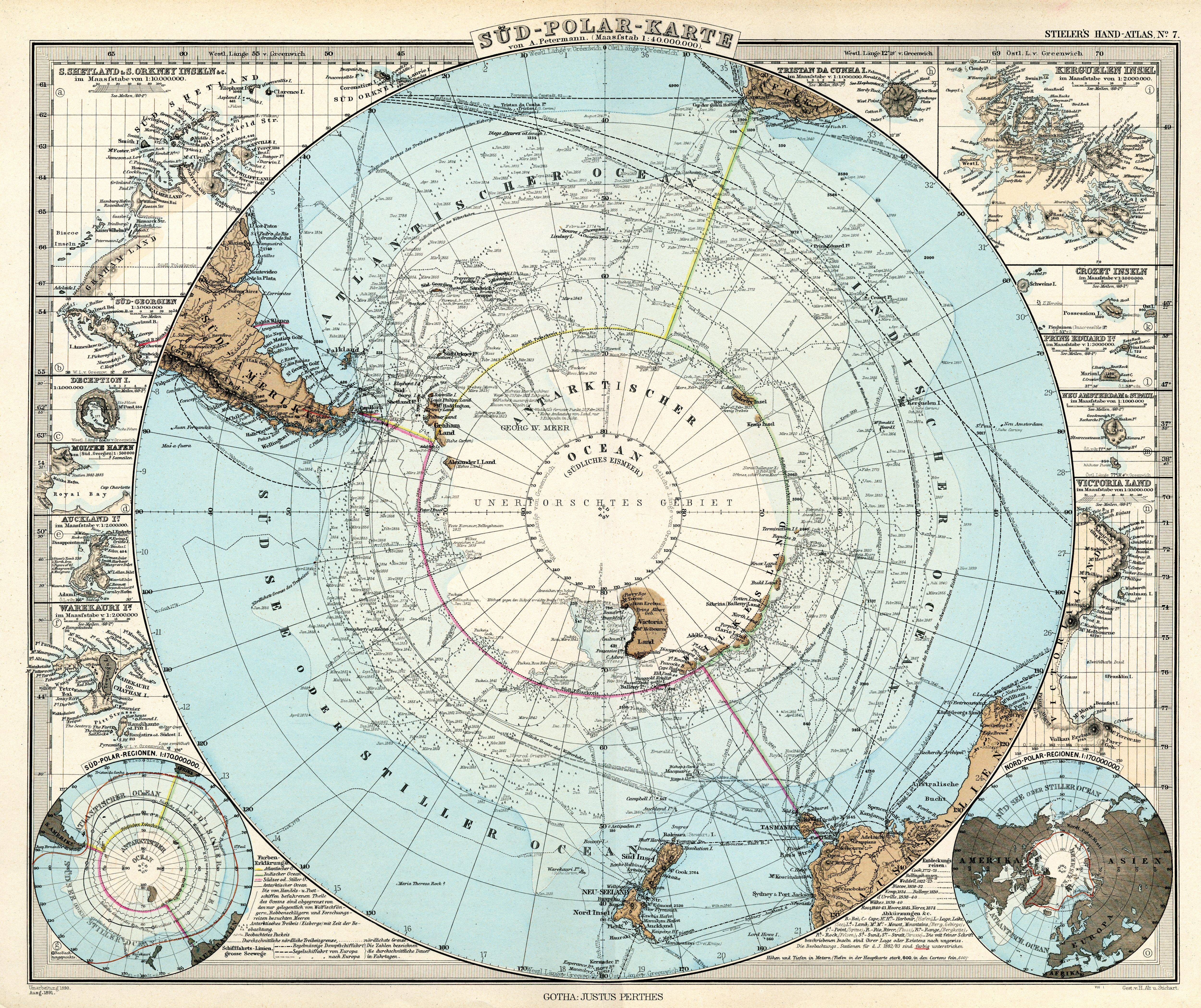 South polar map